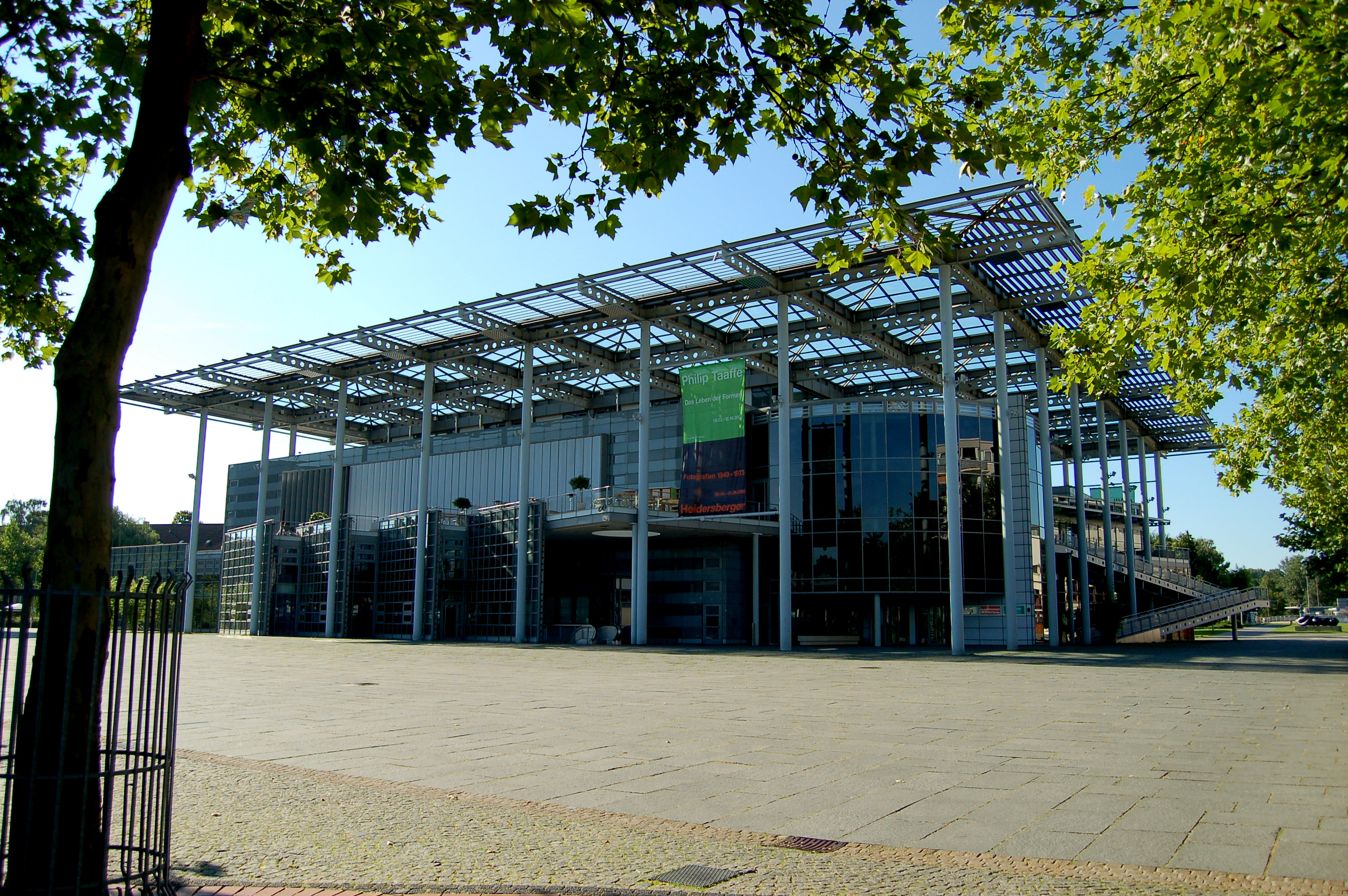 Kunstmuseum Holler-Platz Wolfsburg